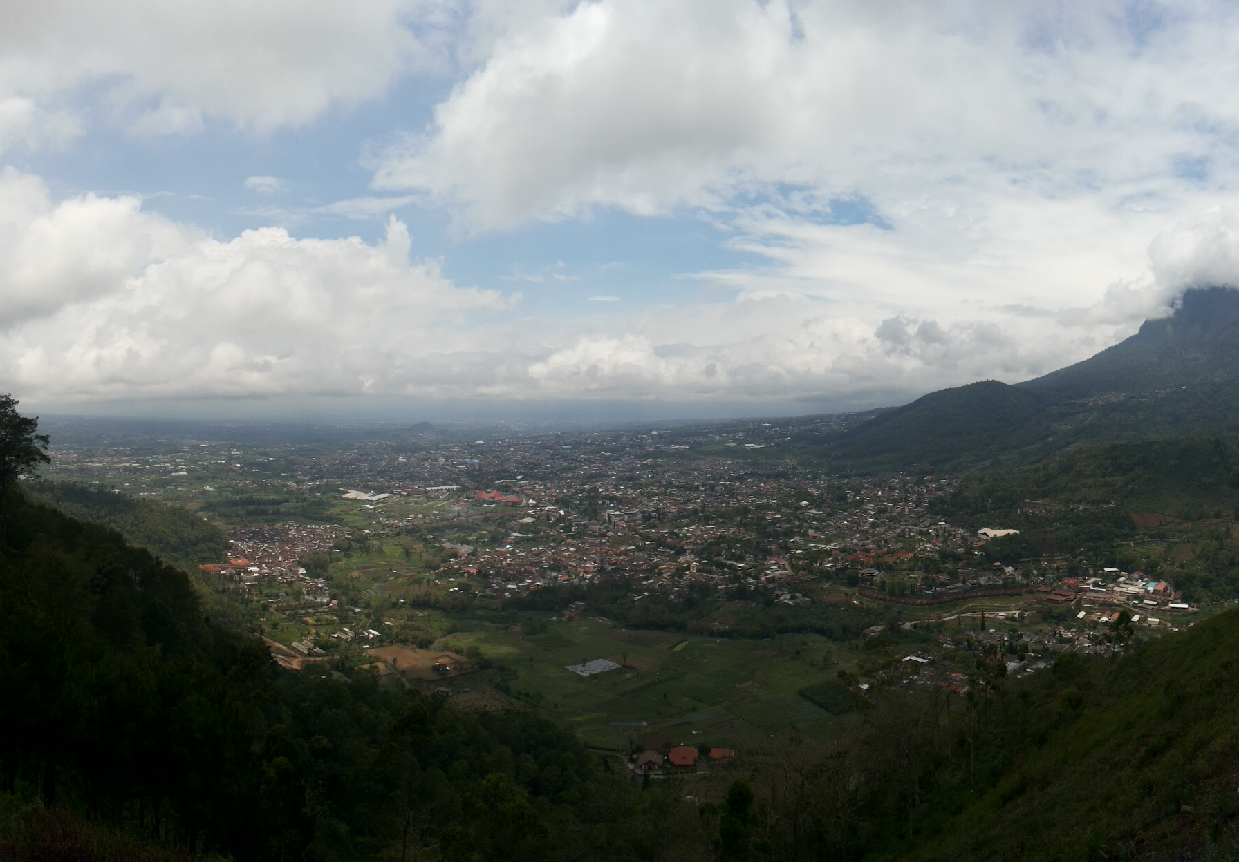 The view of Batu and Malang seen from Gunung Banyak.